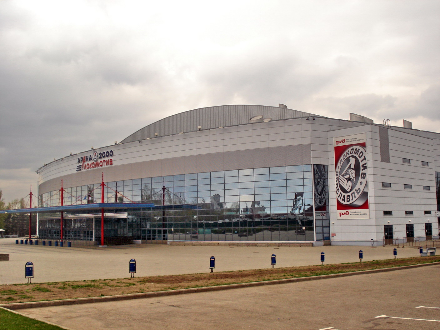 Arena 2000